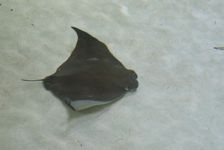 A Cownose ray (Rhinoptera bonasus) at the California Academy of Sciences